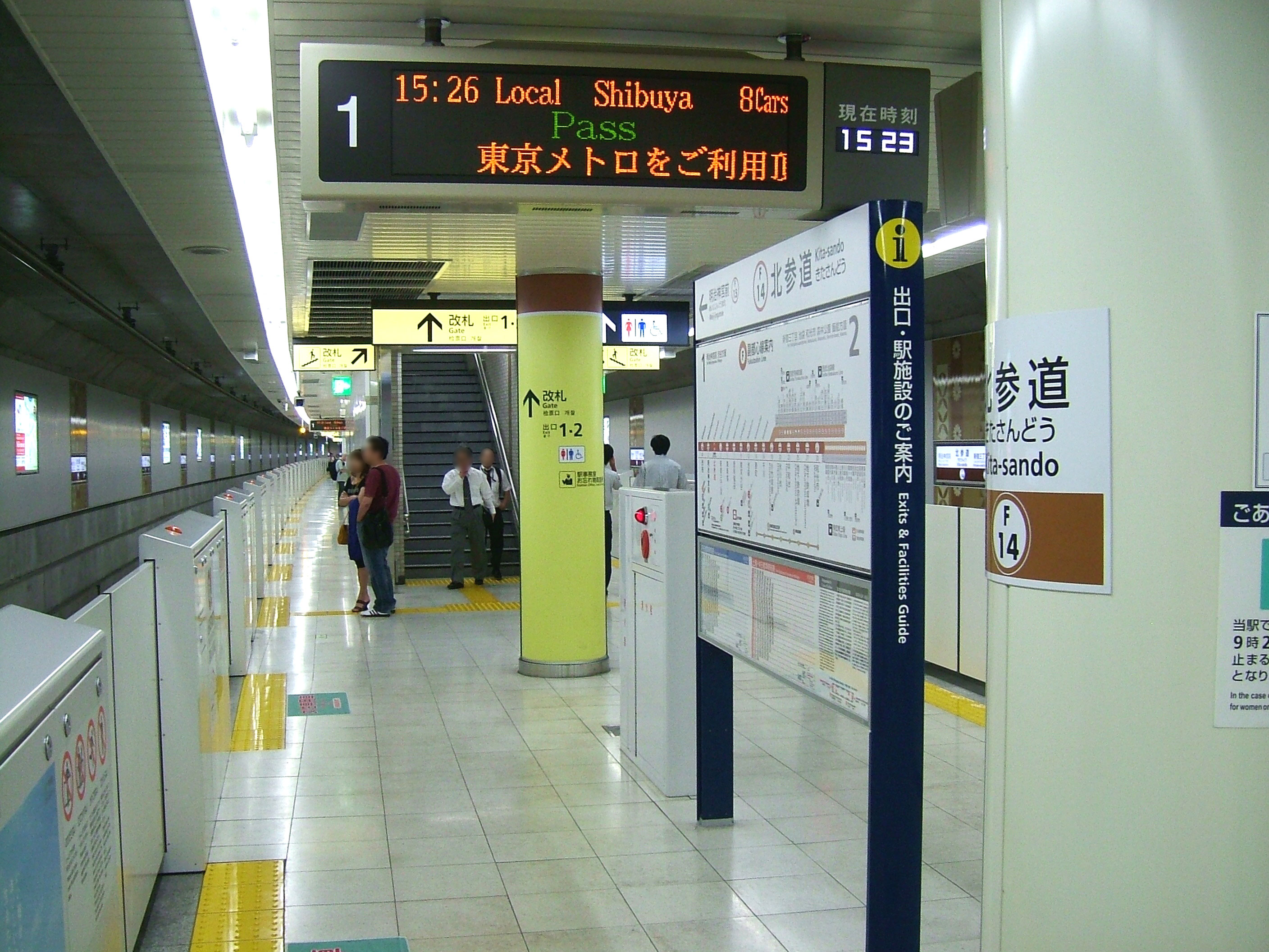 The platform at Kita-sando Station on the Tokyo Metro Fukutoshin Line in Shibuya city, Tokyo, Japan